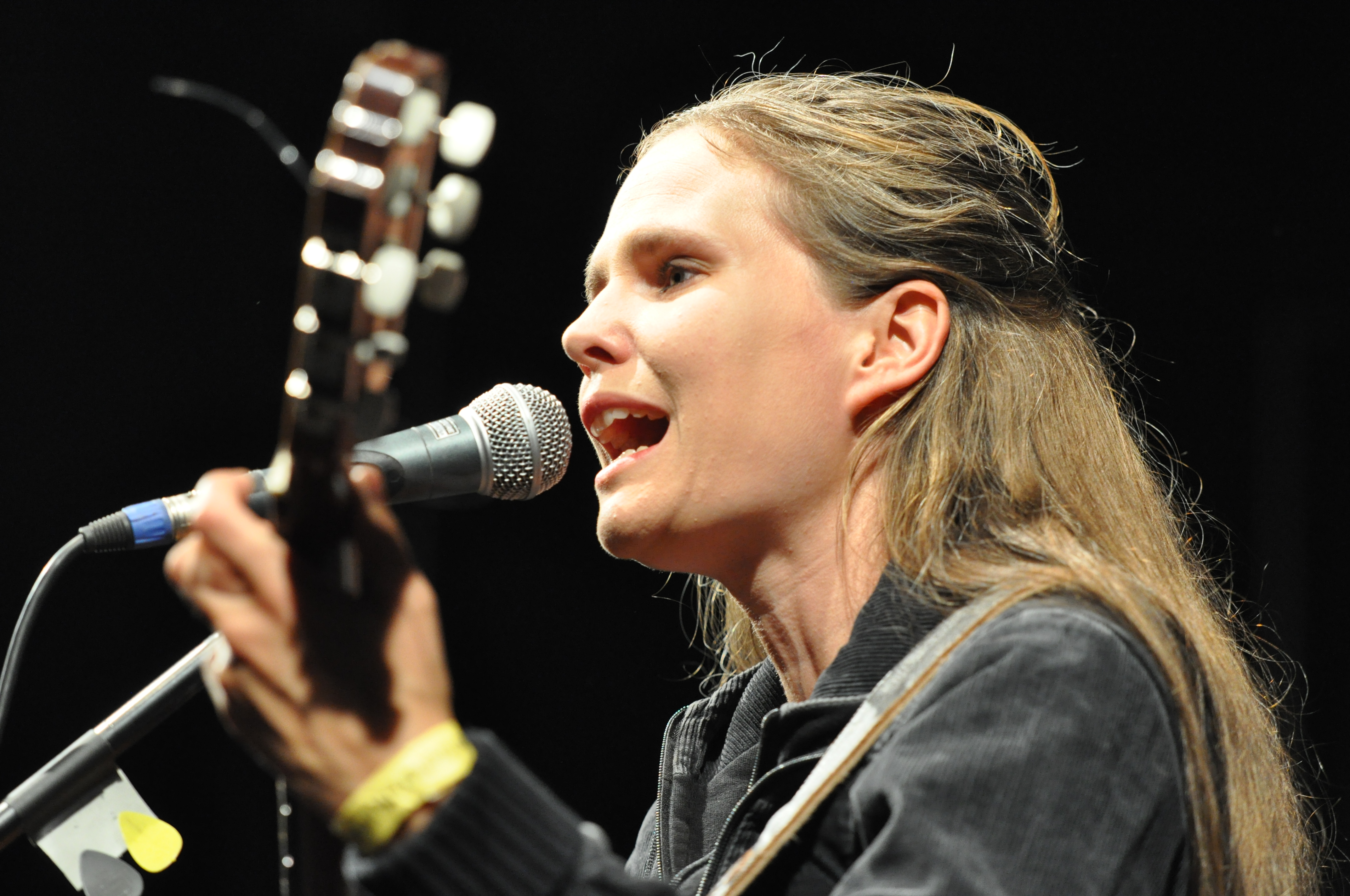 Dota & Band (Germany), appearance at the 39th music festival "Bardentreffen" 2014 in Nuremberg, Germany, Sebald square stage